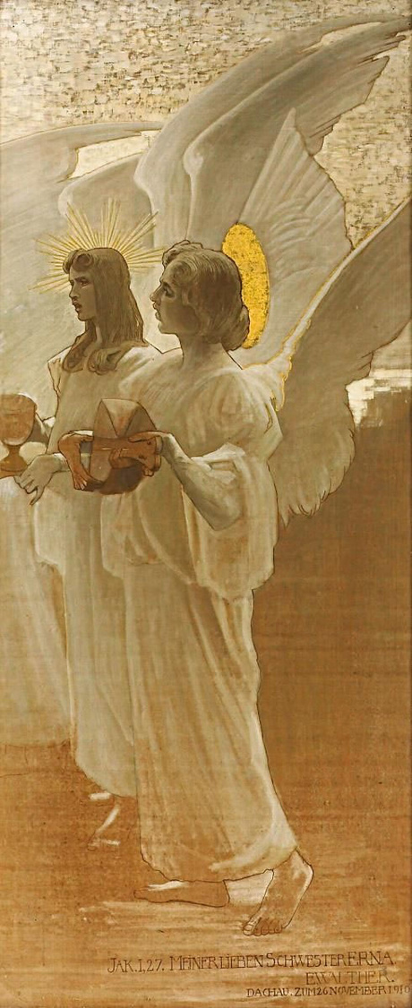 Two Angels